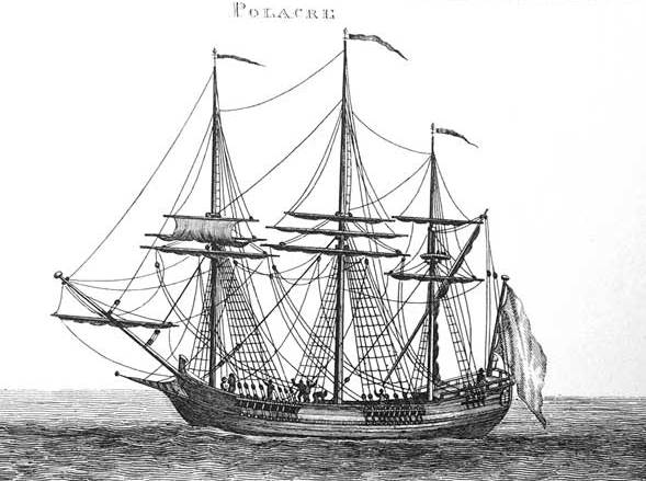 Polacre from "David Steel. The Elements and Practice of Rigging And Seamanship (1794)"